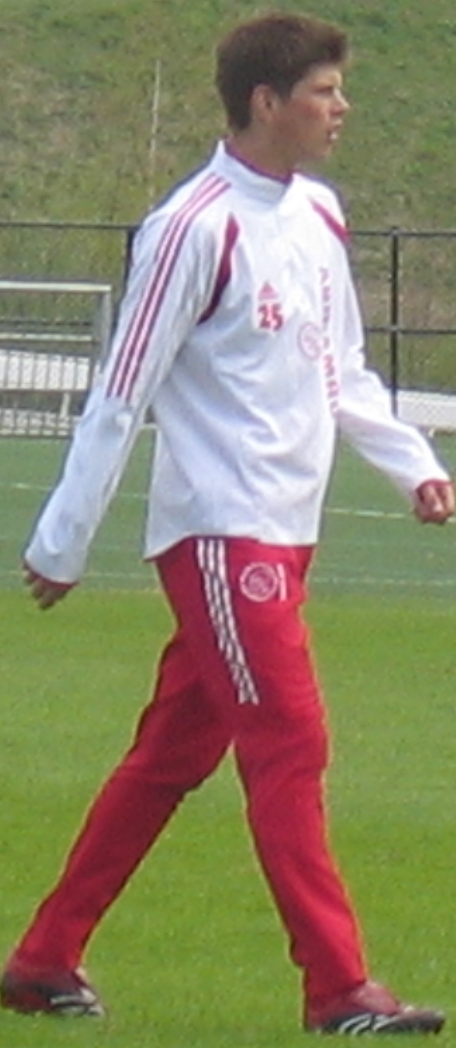 Self taken photo of Klaas-Jan Huntelaar , a football player of AFC Ajax.